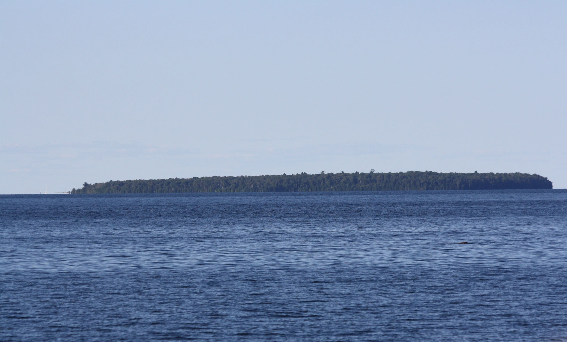 South Twin Island from afar in the Apostle Islands National Lakeshore.